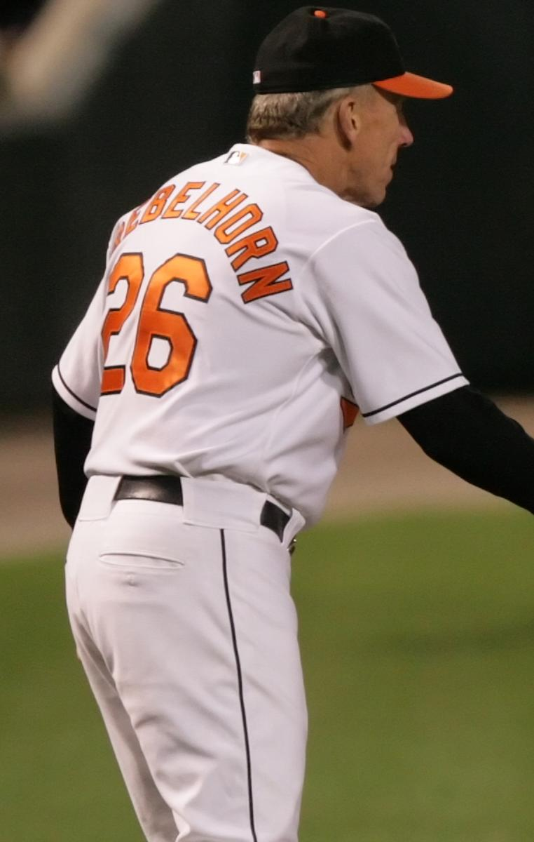 An image of Tom Trebelhorn during his time as Baltimore Orioles third base coach. Cropped version of File:Tom Trebelhorn.jpg